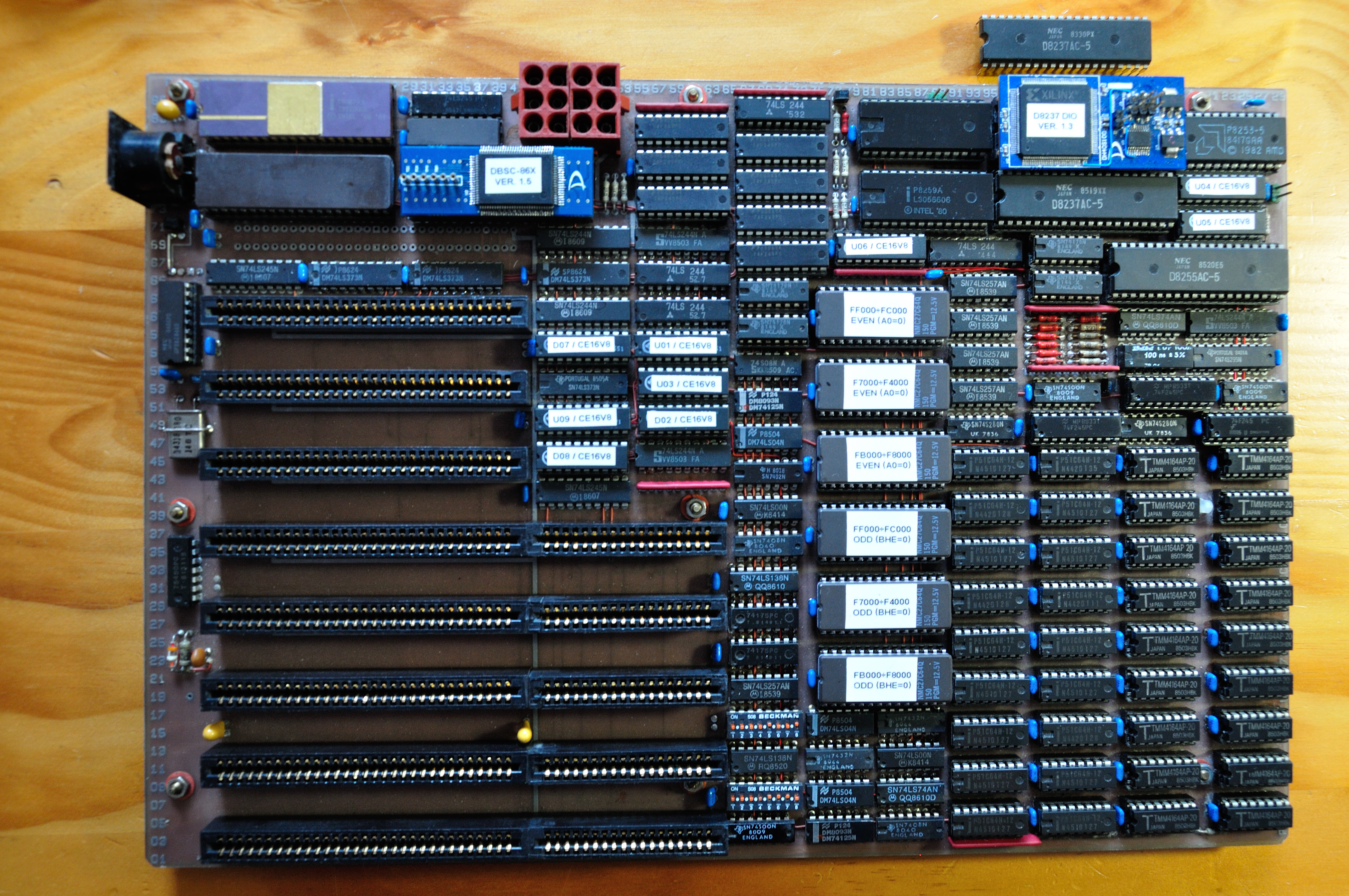 IZOT 1036C motherboard modification 1986